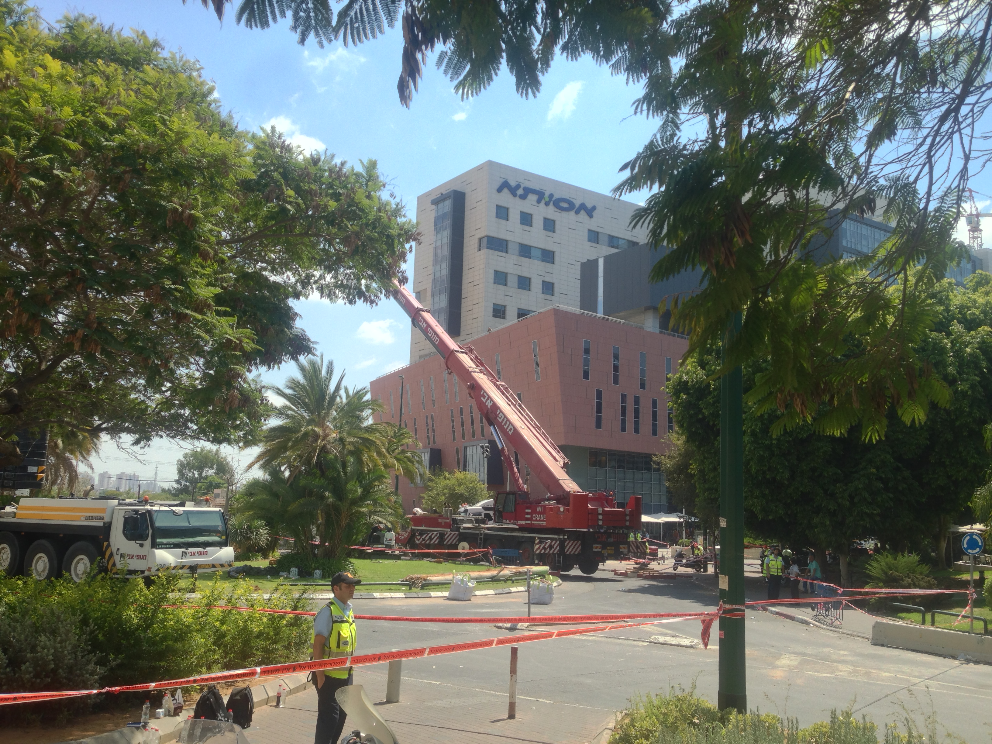 Avi's Cranes assist Home Front Command in the extrication attempts at HaBarzel parking lot collapse site. Assuta Hospital seen in the background.